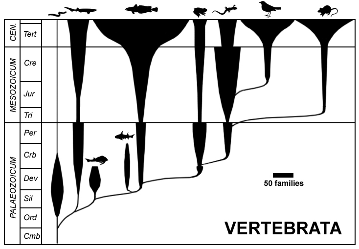 Evolution of Vertebrate from the Cambrium to the present at a class level as a traditional spindle diagram. The width of the spindle represents the number of families as a rough estimate of diversity. The diagram is based on Benton, M. J. (1998) The quality of the fossil record of vertebrates. P. 269–303, in Donovan, S. K. and Paul, C. R. C. (eds), The adequacy of the fossil record, Fig. 2. Wiley, New York, 312 p. The figures representing classes are (from left): Agnatha, Chondrichthyes, Osteichthyes, Amphibia, Reptilia, Aves and Mammalia. The two extinct classes are Placodermi and Acanthodii. All classes interpreted traditionally. Bentons notes to his own tree: Number of families is an imperfect measure of diversity. Reptilia in particular should probably have been shown as far more diverse in the Mesozoic.